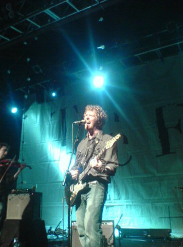 A photograph of Glen Hansard of the Frames, at a concert in Vicar Street Dublin on 31st December 2006.